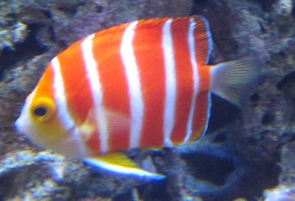 Peppermint Angelfish (Paracentropyge boylei), Waikiki Aquarium